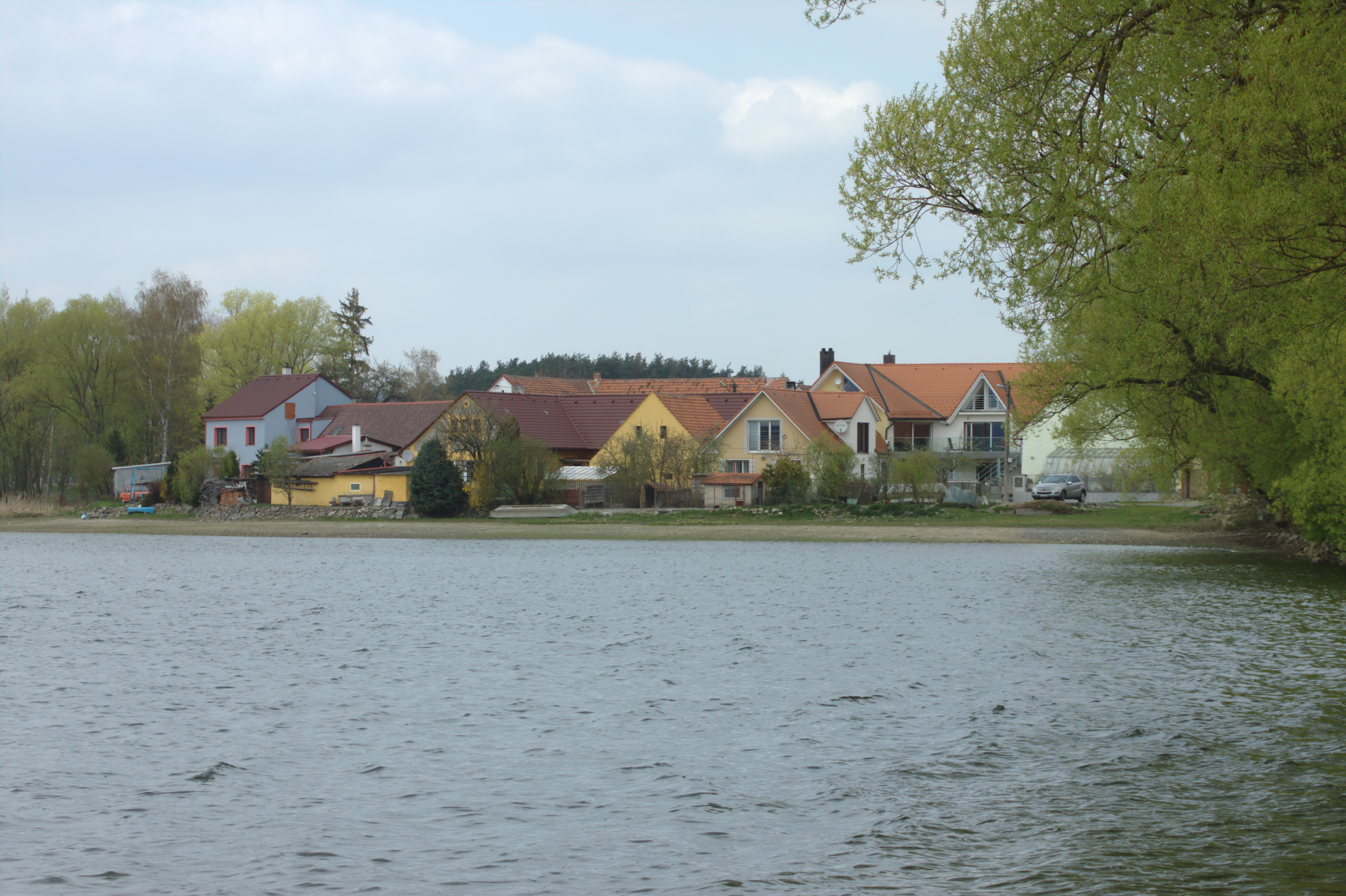 Buildings in the village of Smrkovec near Sušice, Plzeň Region, CZ